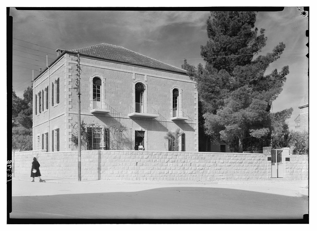 Title: "Churchill House," front view, nurses' convalescent home near Ratisbone's [i.e. Ratisbonne's], Jerusalem Abstract/medium: G. Eric and Edith Matson Photograph Collection Physical description: 1 negative